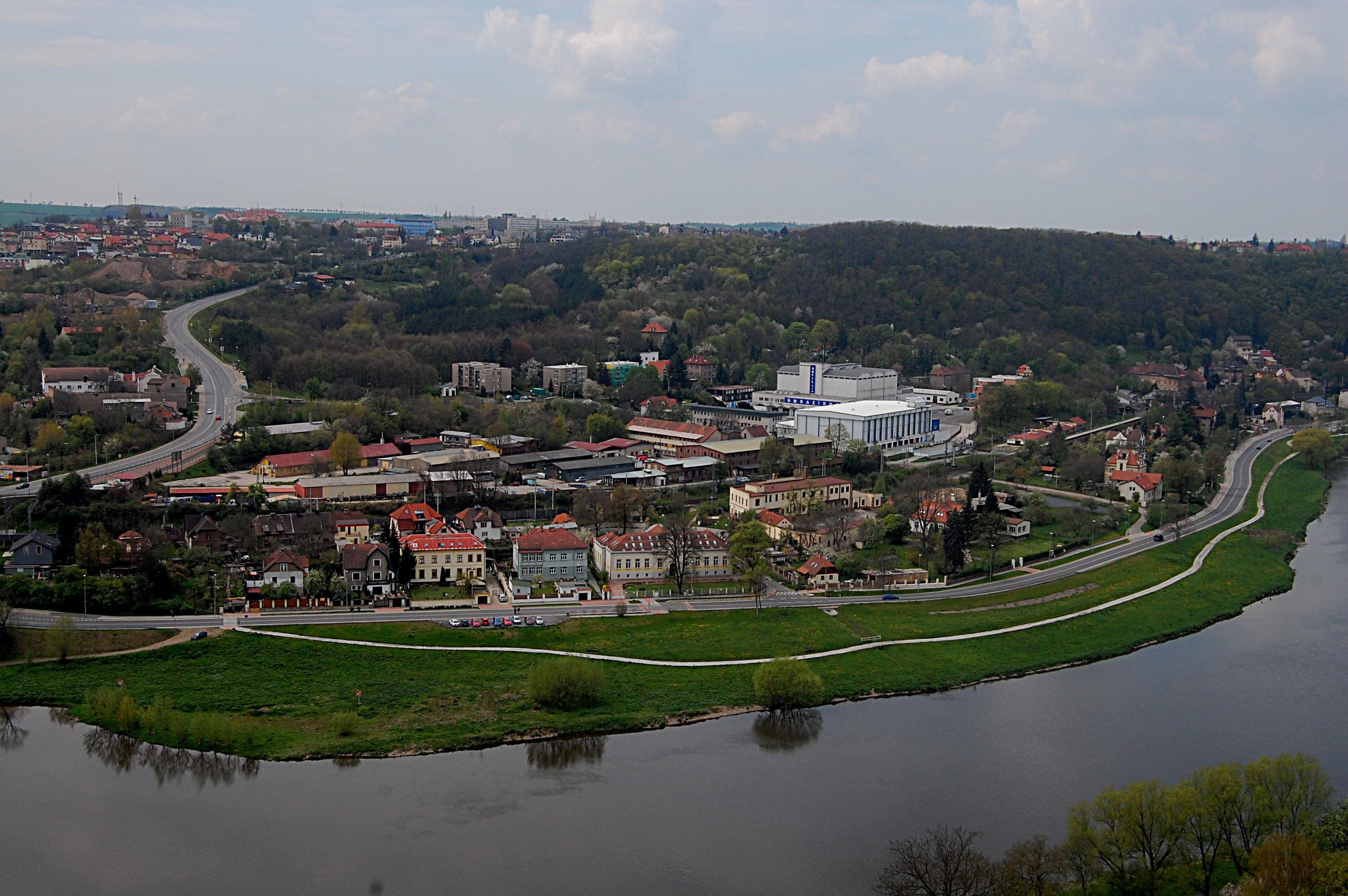 Praha-Sedlec, Czech Republic, picture taken from Praha-Bohnice